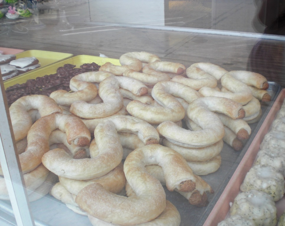 Dutch Letters - The Perfect Food